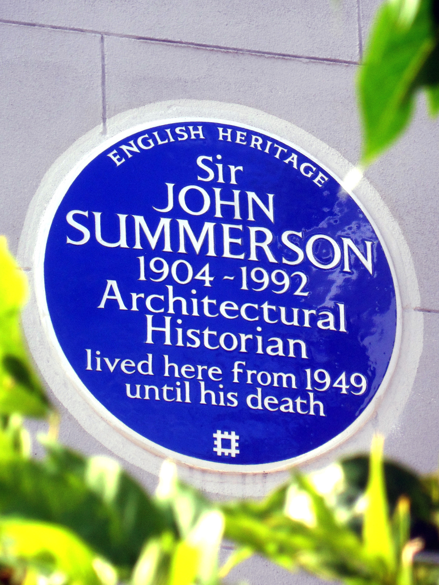 Blue plaque erected in 2012 by English Heritage at 1 Eton Villas, Chalk Farm, London NW1 4SX, London Borough of Camden